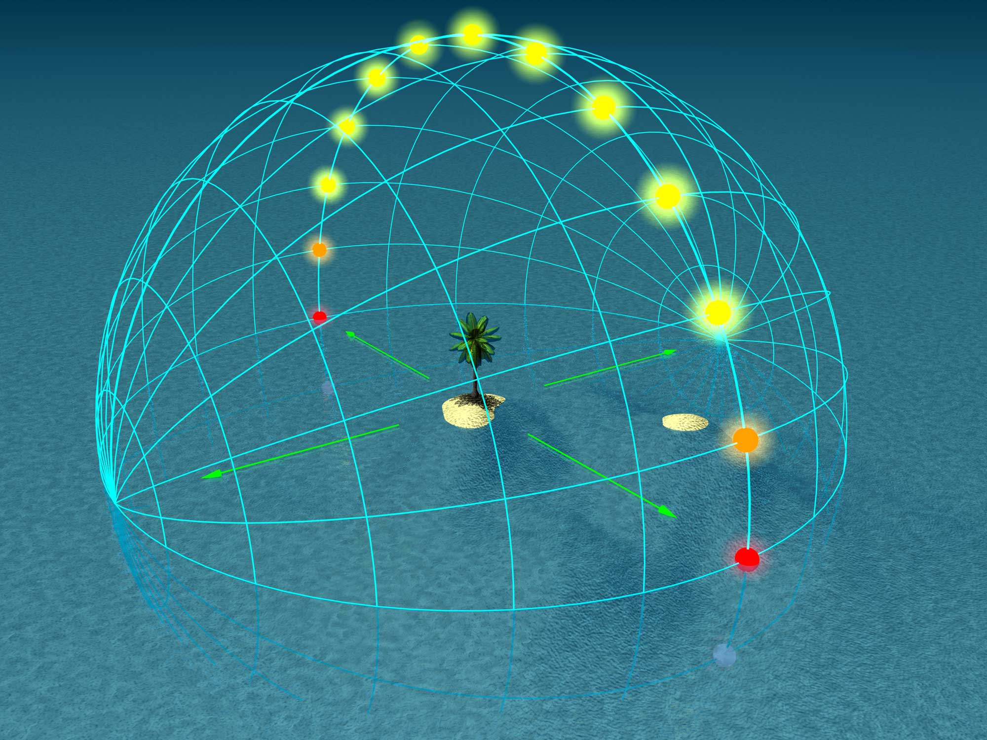 The day arc of the Sun, every hour, during the equinoxes as seen on the celestial dome, from the equator. Also showing 'twilight suns' down to -18° altitude. Note the Sun in the zenith at noon and that the tree's shadow is cast straight down, i.e. it stands in the center of its own shadow.